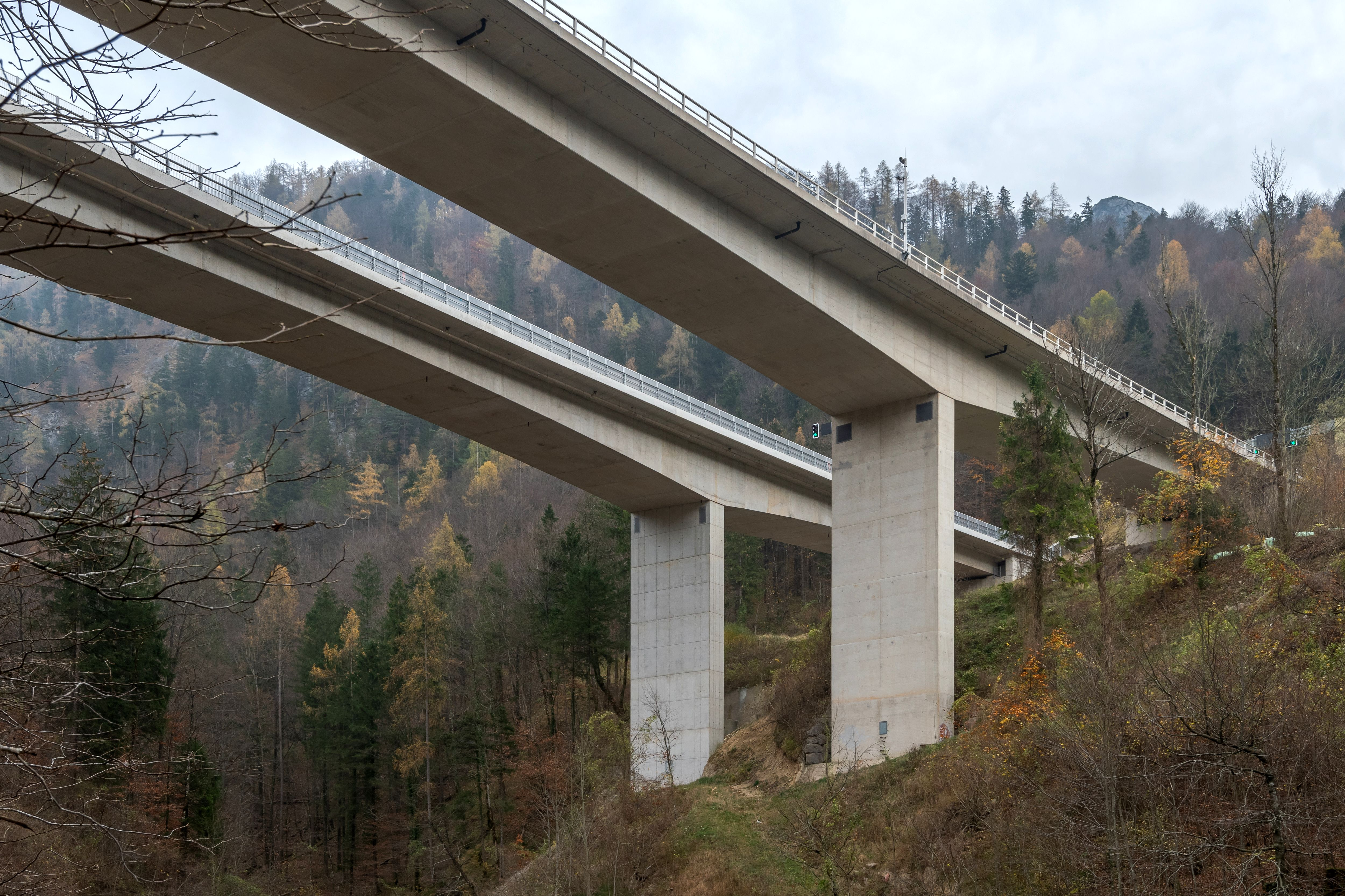 The bridges over Pertlgraben in Klaus an der Pyhrnbahn connect the tunnles of Klaus with the tunnels Traunfried